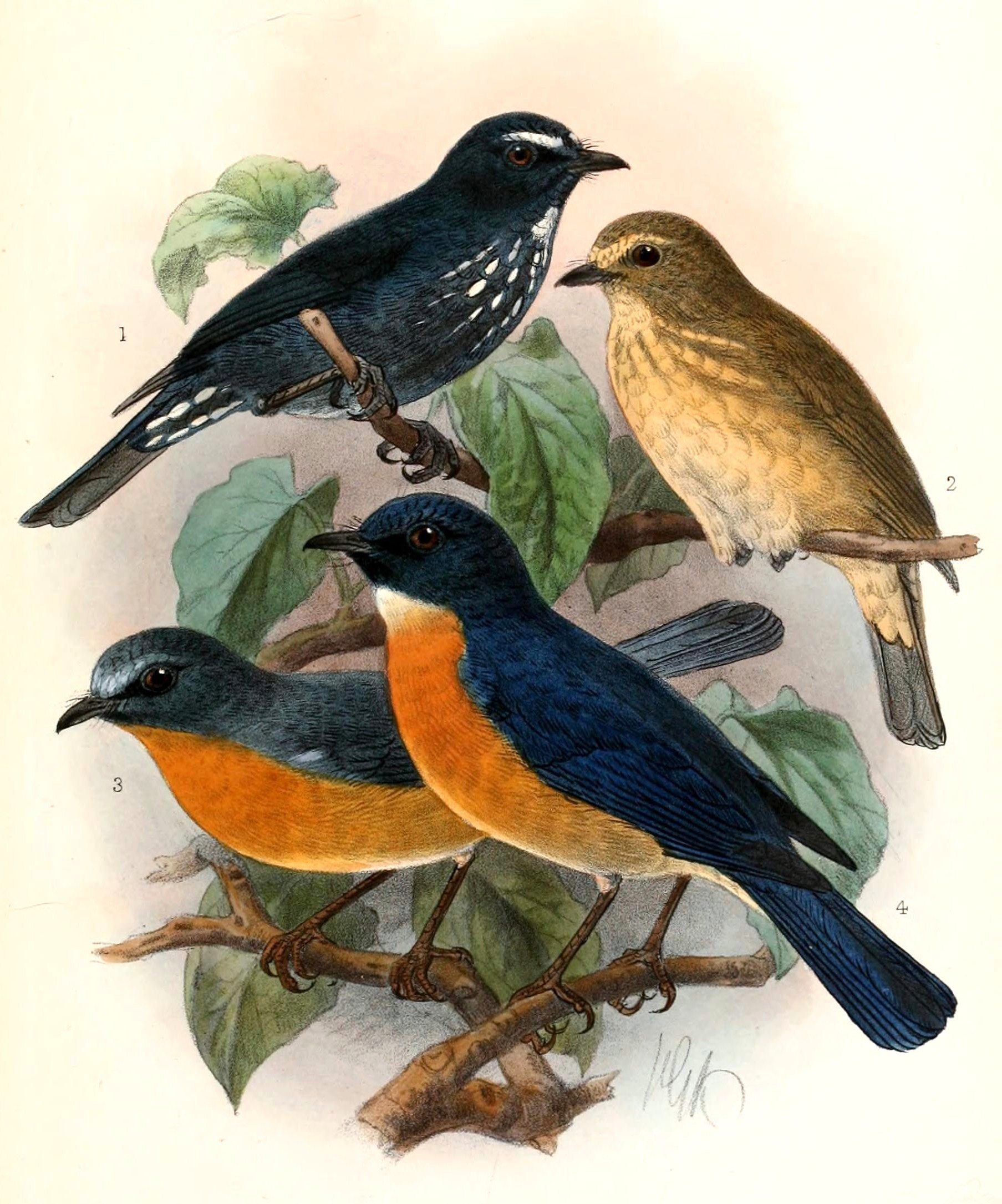 « Dammeria henrici » = Ficedula henrici (Damar Flycatcher) - male and female « Siphia banyumas banyumas » = Cyornis banyumas banyumas (Subspecies of Hill Blue Flycatcher) « Siphia banyumas rufigastra » = Cyornis rufigastra (Mangrove Blue Flycatcher)